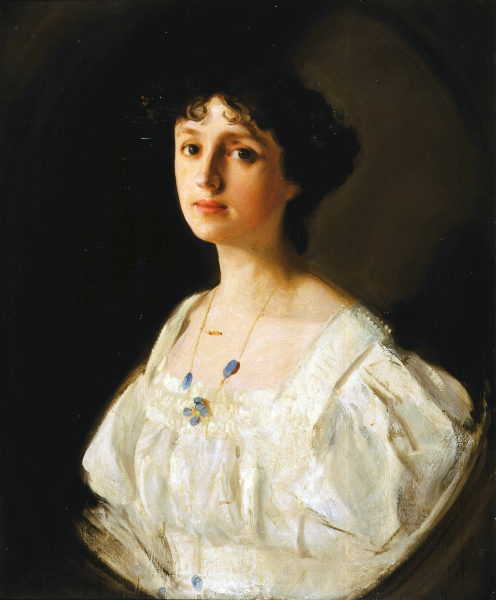 Desc: Dame Lillian Braithwaite c.1902 portrait of actress, oil on canvas ¥ Artist: SIMS, Charles : 1873-1928 : English ¥ Credit: [ The Art Archive / Garrick Club / Garrick Club ] ¥ Ref: AA340139